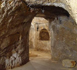 Lilybeum Sibyl’s cave